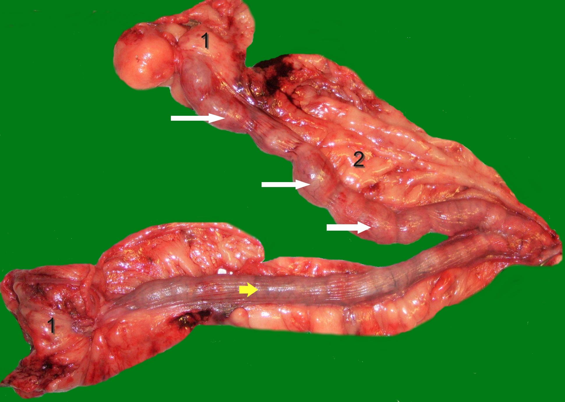 uterus of a dog with a glandular-cystic hyperplasia of the endometrium after surgical removal (yellow arrows: cysts, white arrows: enlarged uterus segments filled with pathological fluid, 1 Bursa ovarica, 2 Mesometrium)